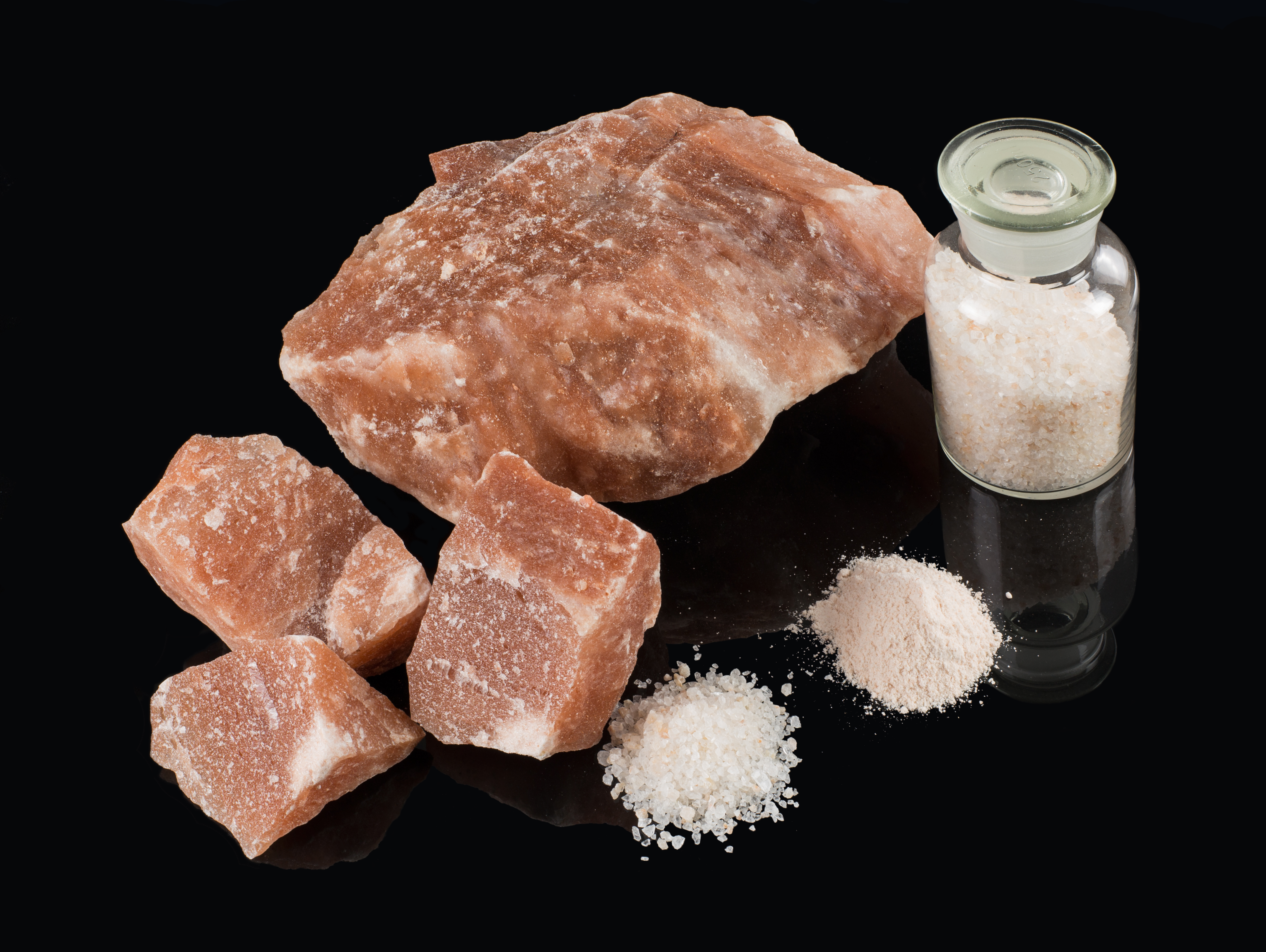 red rock salt from the Khewra Salt Mine in northern Pakistan, falsely known and sold as Himalaya salt. The large piece weighs about 3.8 kilograms, all together five kg. The chemical composition of this so known "Himalayan salt" includes 95–96% sodium chloride, contaminated with 2–3% polyhalite and small amounts of ten other minerals. The pink color is due to Iron compounds